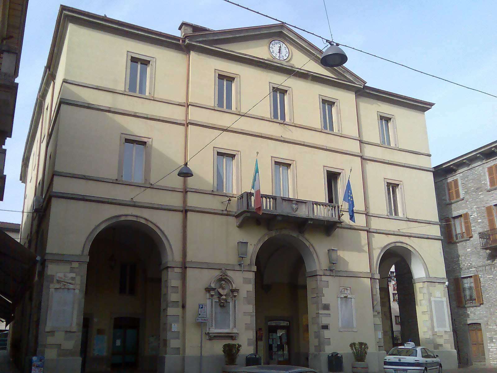 Italy, province of Parma, municipality of Borgo val di Taro, palace Manara, the Town Hall.